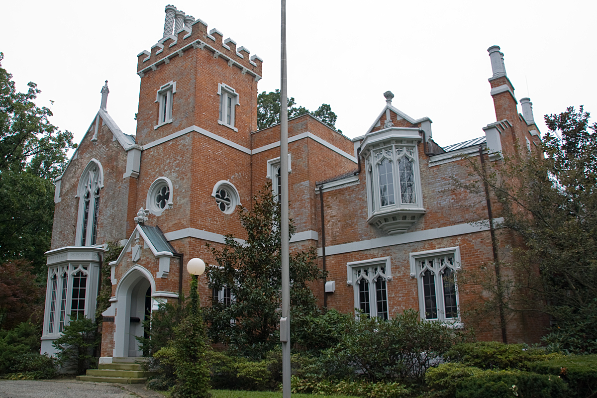 John S. Baker House in Cincinnati, OH. Photo by Greg Hume